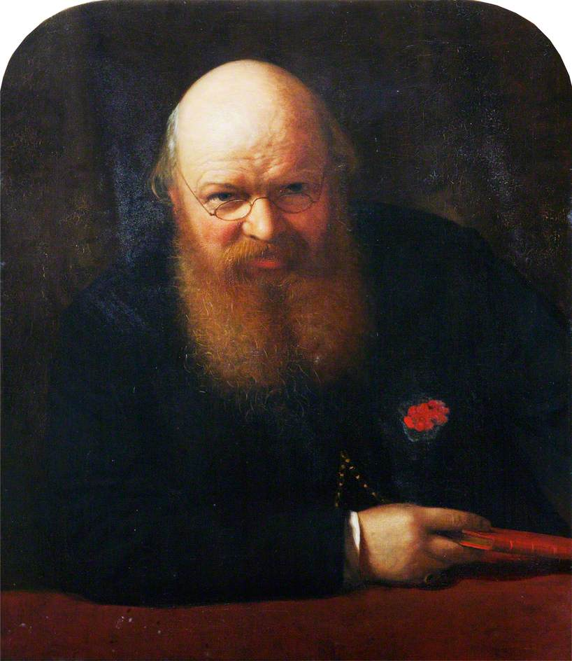 Edward Capern (1819-1894), Bideford Postman Poet; Burton Art Gallery and Museum, Bideford.